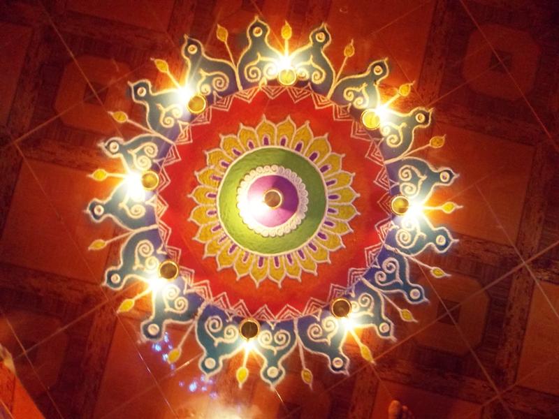 The purpose of rangoli is decoration, and it is thought to bring good luck. Design depictions may also vary as they reflect traditions, folklore and practices that are unique to each area.Rangoli is an Indian sandpainted design often seen in Diwali, the Indian festival of lights.